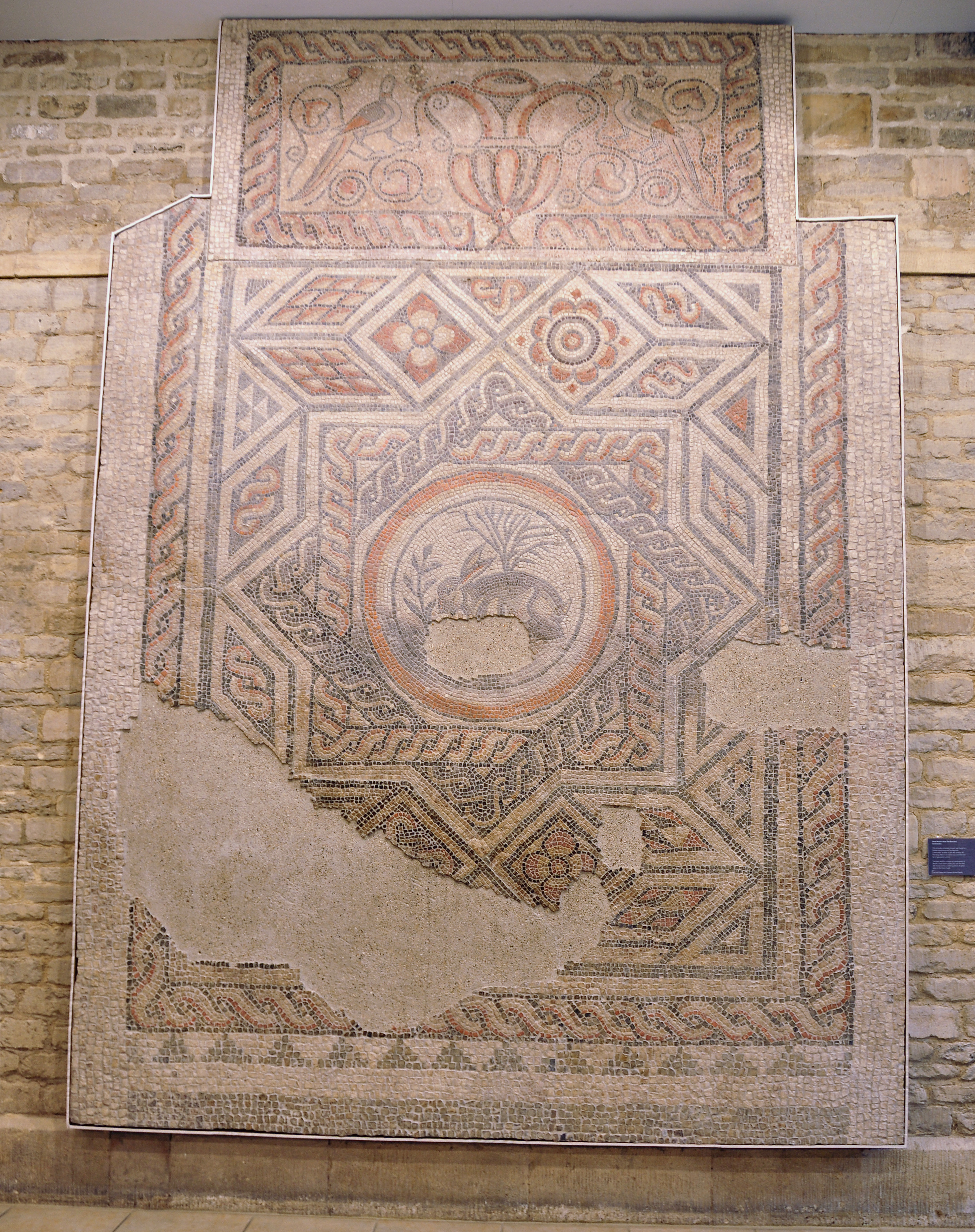 A mosaic in the Corinium Museum in Cirencester, Gloucestershire.